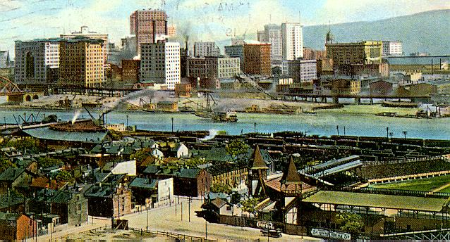 Scan of a colorized postcard of Pittsburgh skyline and Exposition Park visible in lower right corner, ca. 1900.